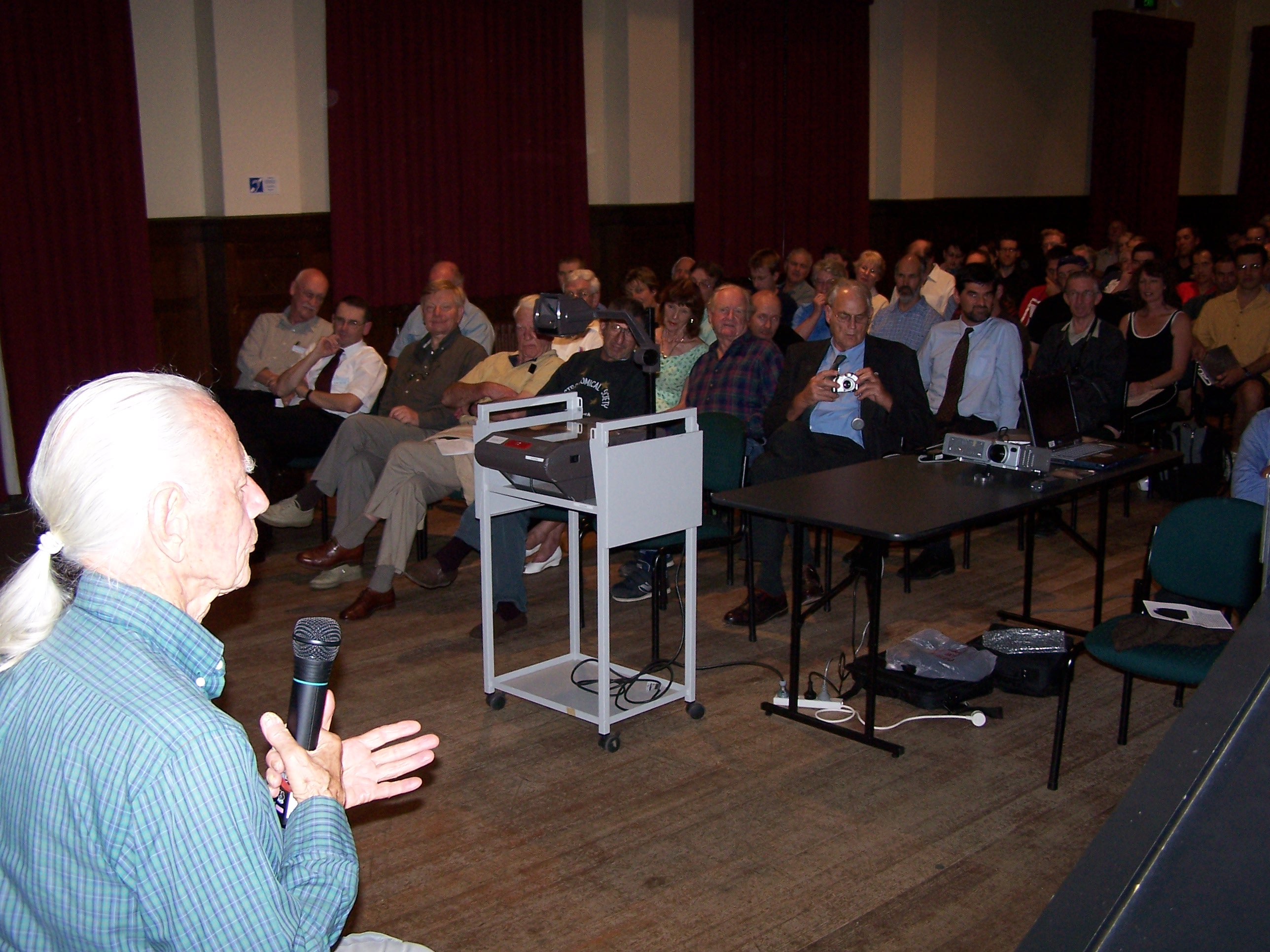 John Dobson speaking at a Monthly Meeting of the the Astronomical Society of Victoria.